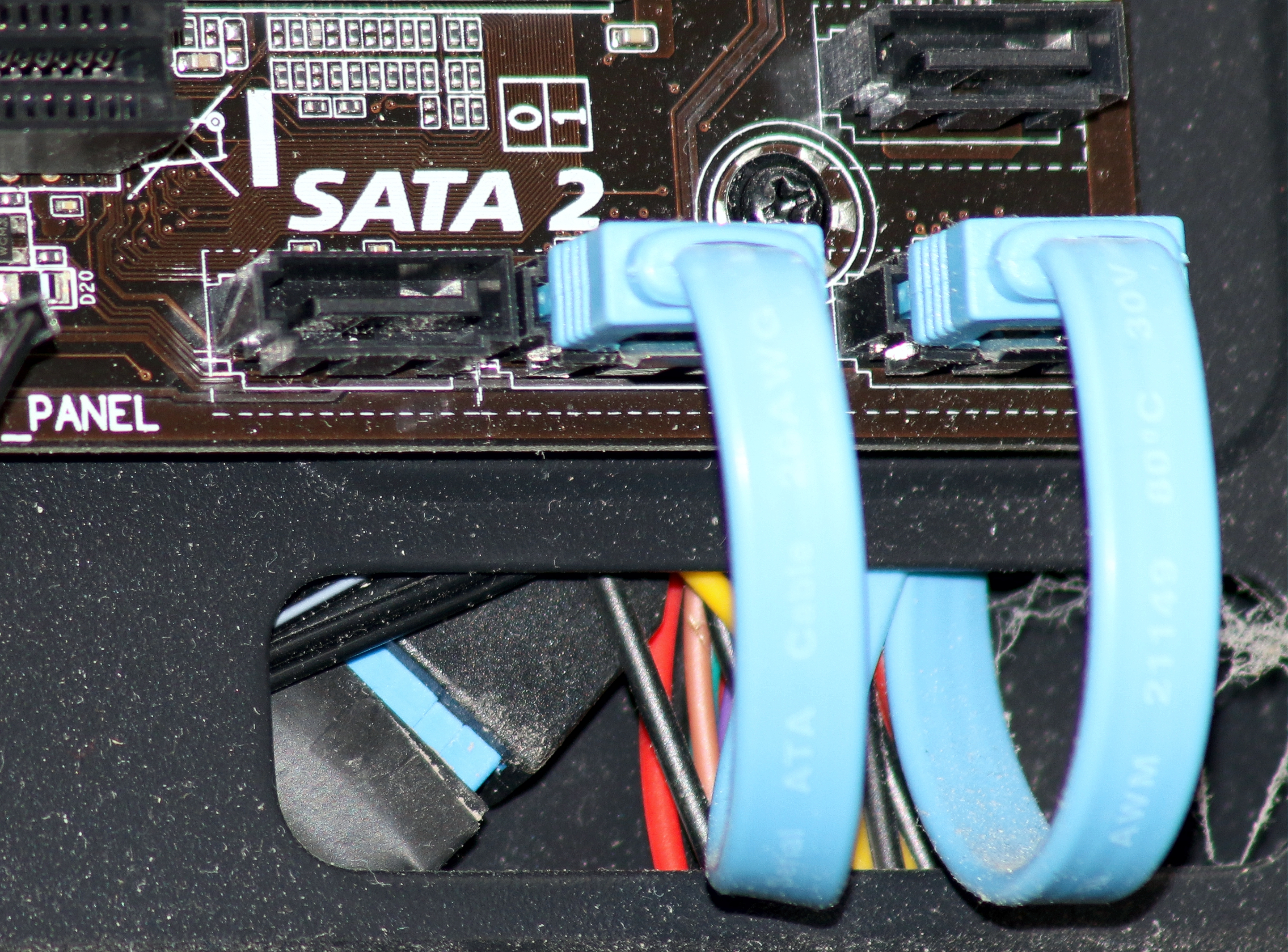 SATA 2